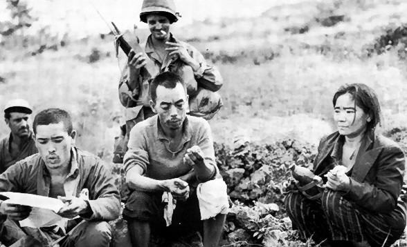 Overcoming the last resistance on Okinawa was aided by propaganda leaflets, one of which is being read by a prisoner awaiting transportation to the rear. Many civilians gave up at the same time.